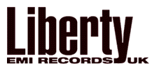 Logo for EMI Liberty Records UK